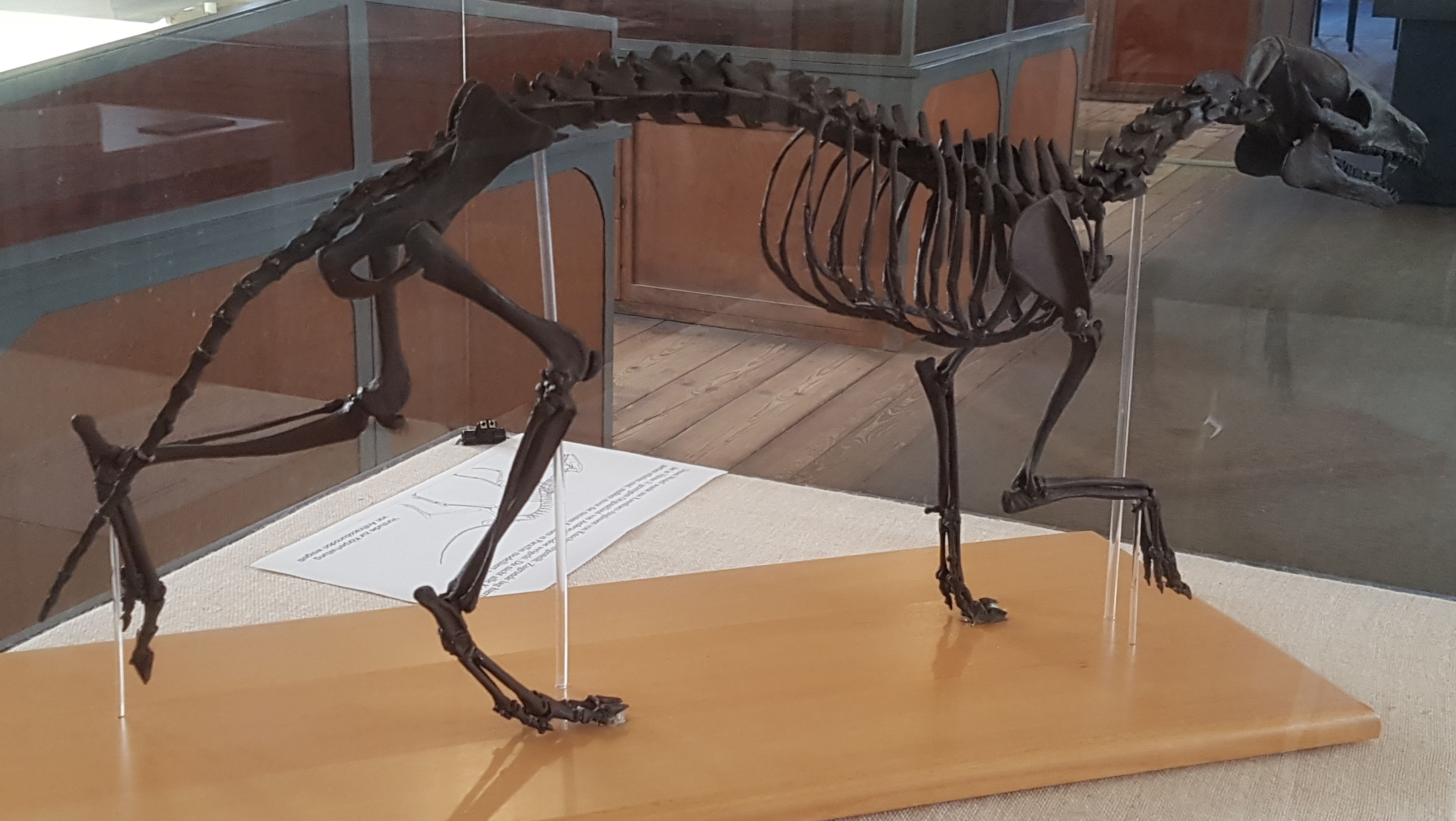 reconstruction of the skeleton of Amphirhagatherium from the Geiseltal, Germany, Middle Eocene; took the picture in the Geiseltalmuseum, Halle (Saxony-Anhalt)